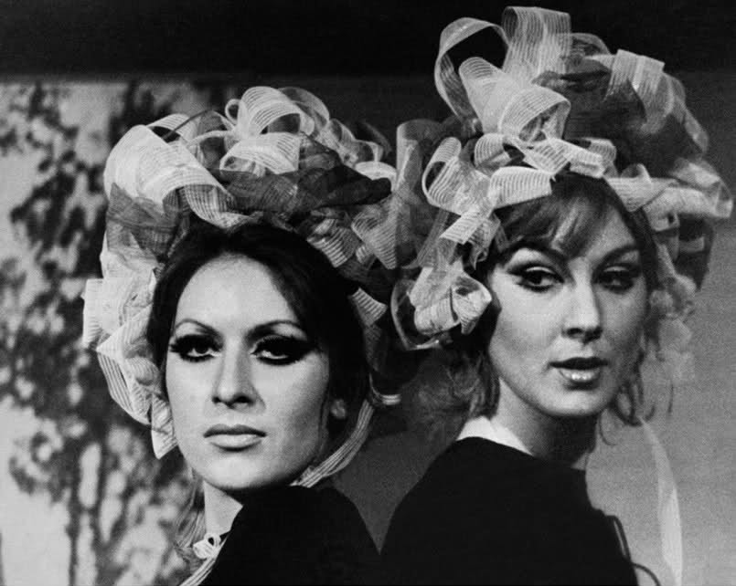 Left to Right: Turkish Romalı Perihan, formerly Princess of Esfandiari-Bakhtiari, and Italian Carla Maria Puccini, the daughter-in-law of the politician Benito Mussolini, during a cabaret.